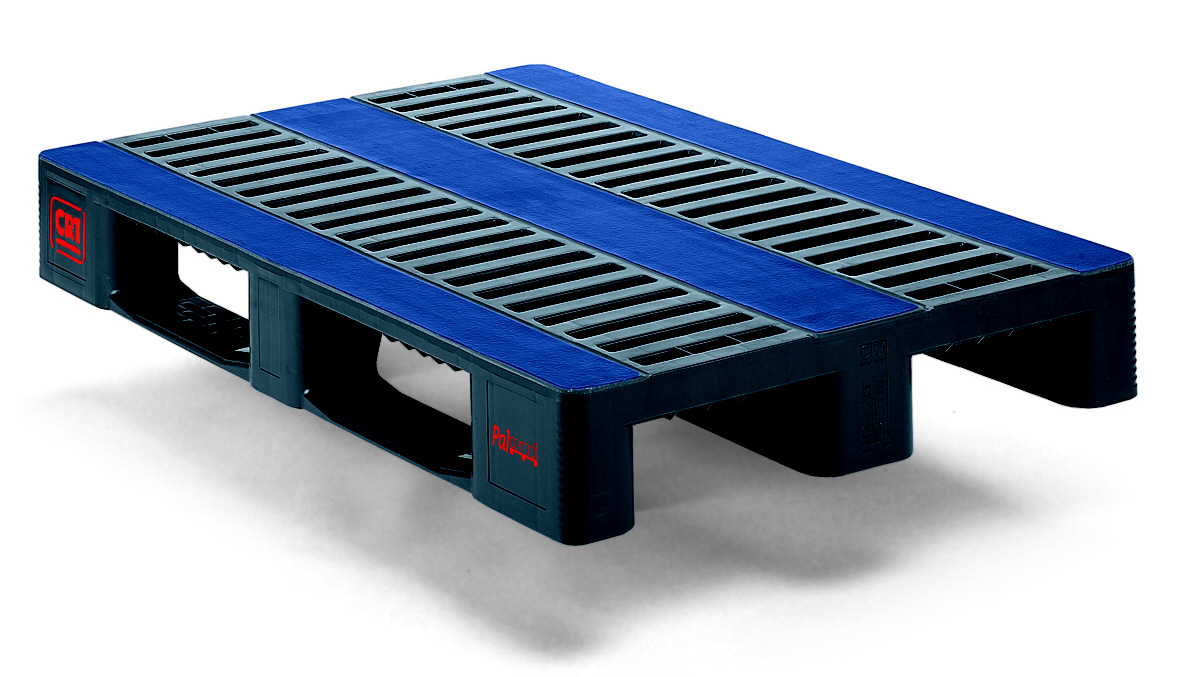 The picture shows a modern high tec plastic pallet type "CR1" equipped with RFID transponders, reinforced profiles and antislip topdeck